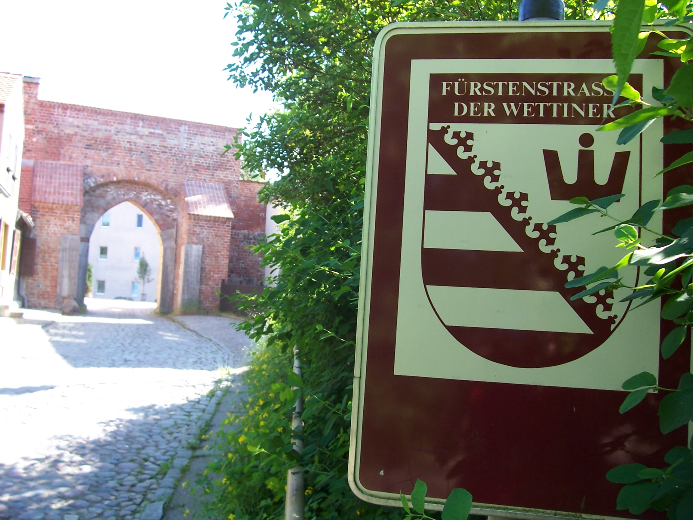 gate of Eilenburg castle with the sign “Fuerstenstraße der Wettiner”